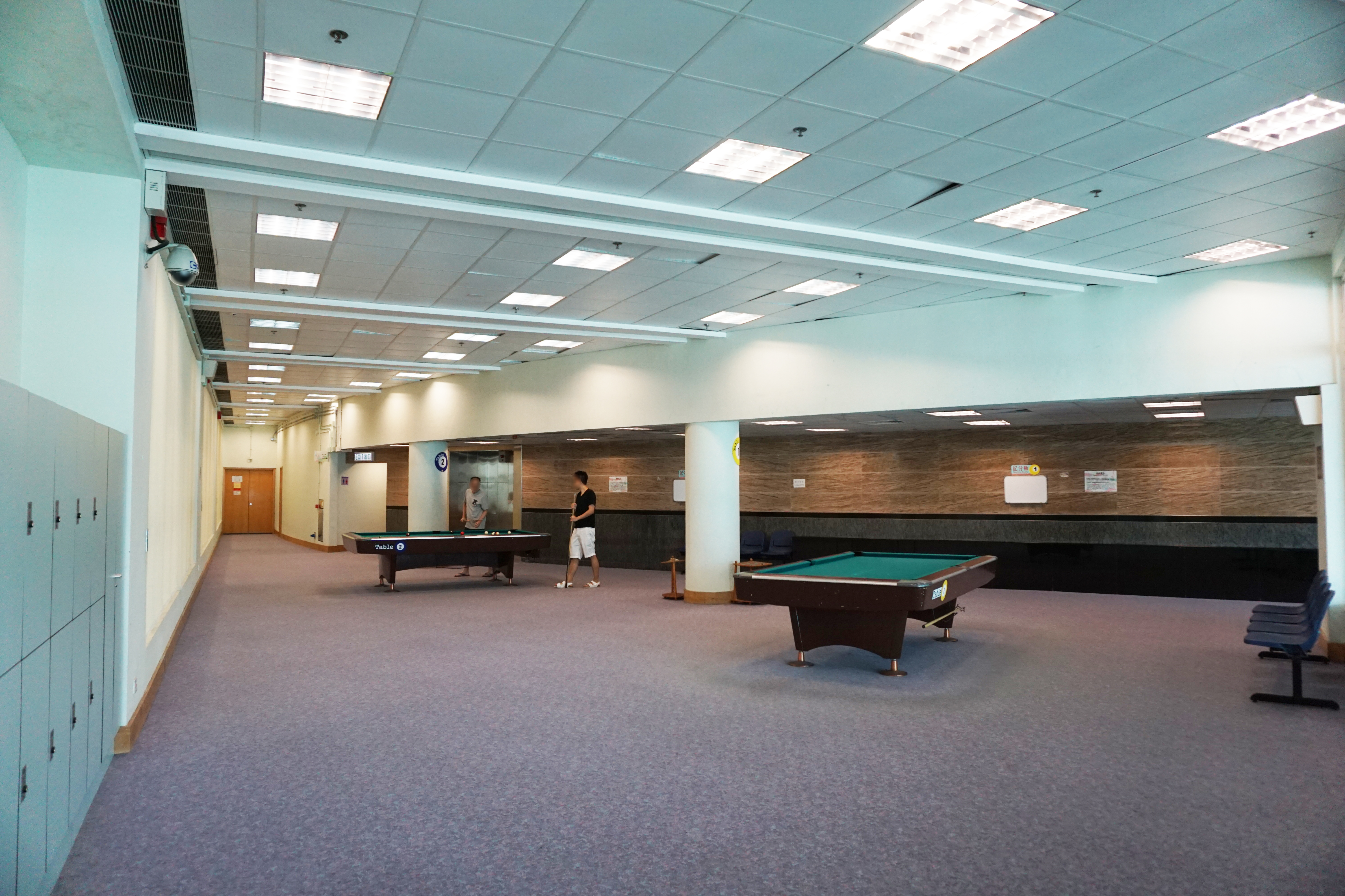 Lei Yue Mun Sports Centre in Yau Tong, Hong Kong.